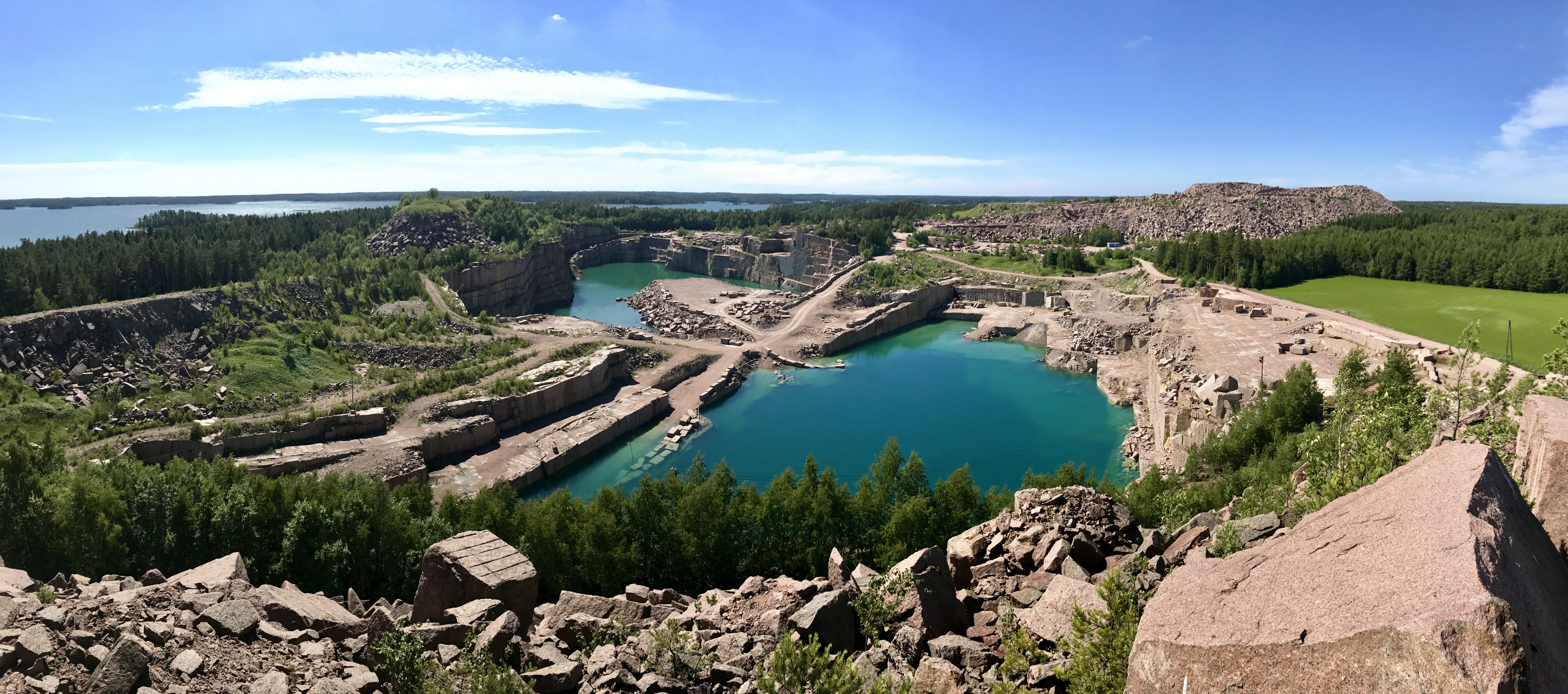 Hilloinen dimension store quarry in Taivassalo, Finland.